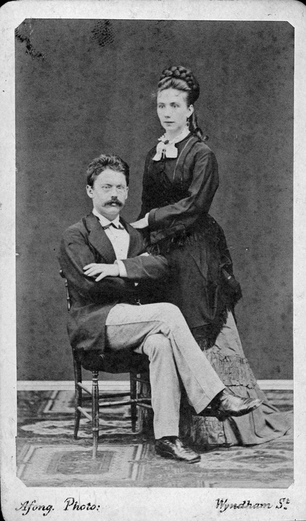 Friedrich Hirth (1845-1927), German-American sinologue